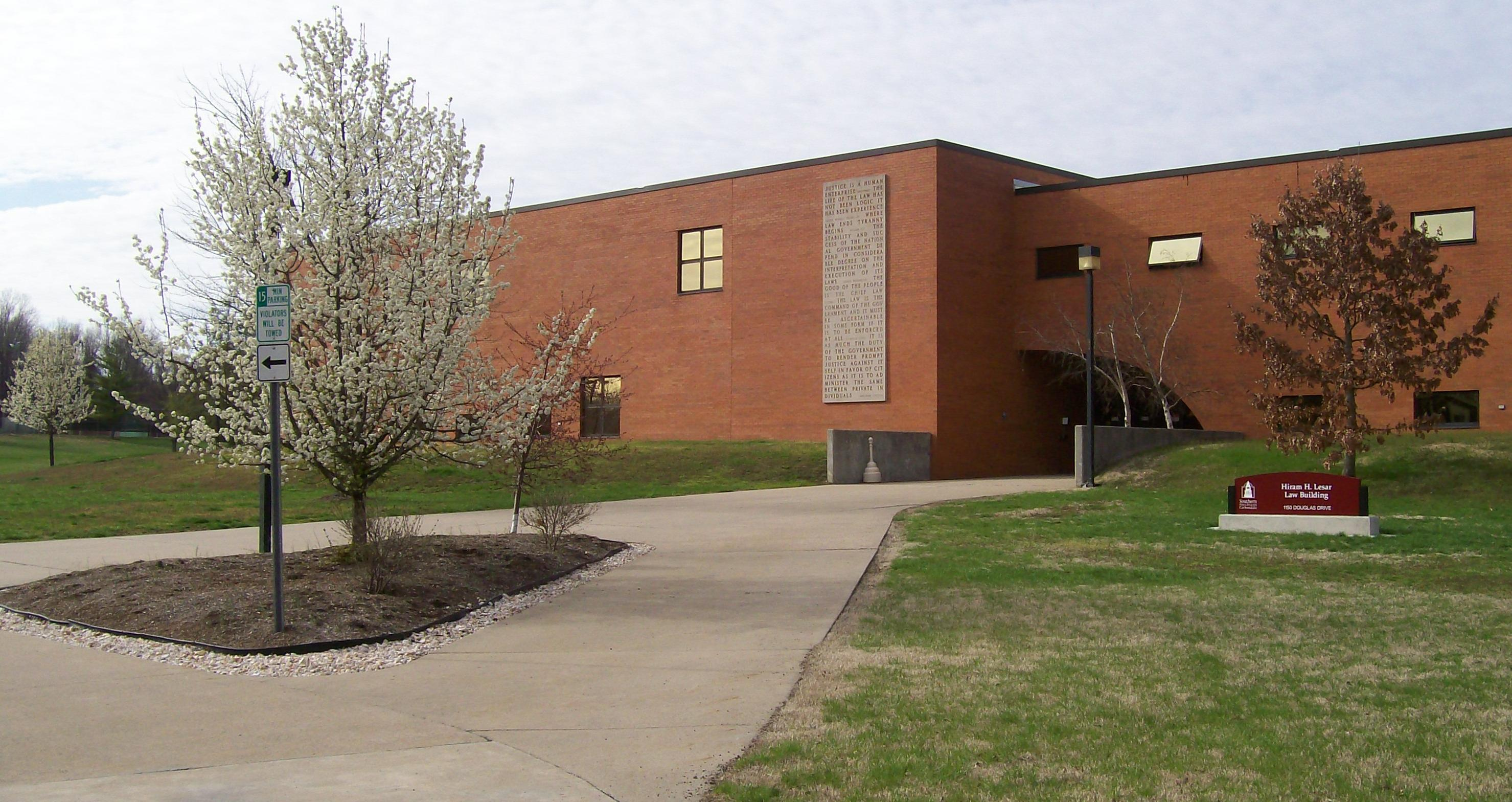 South face of the Southern Illinois University School of Law